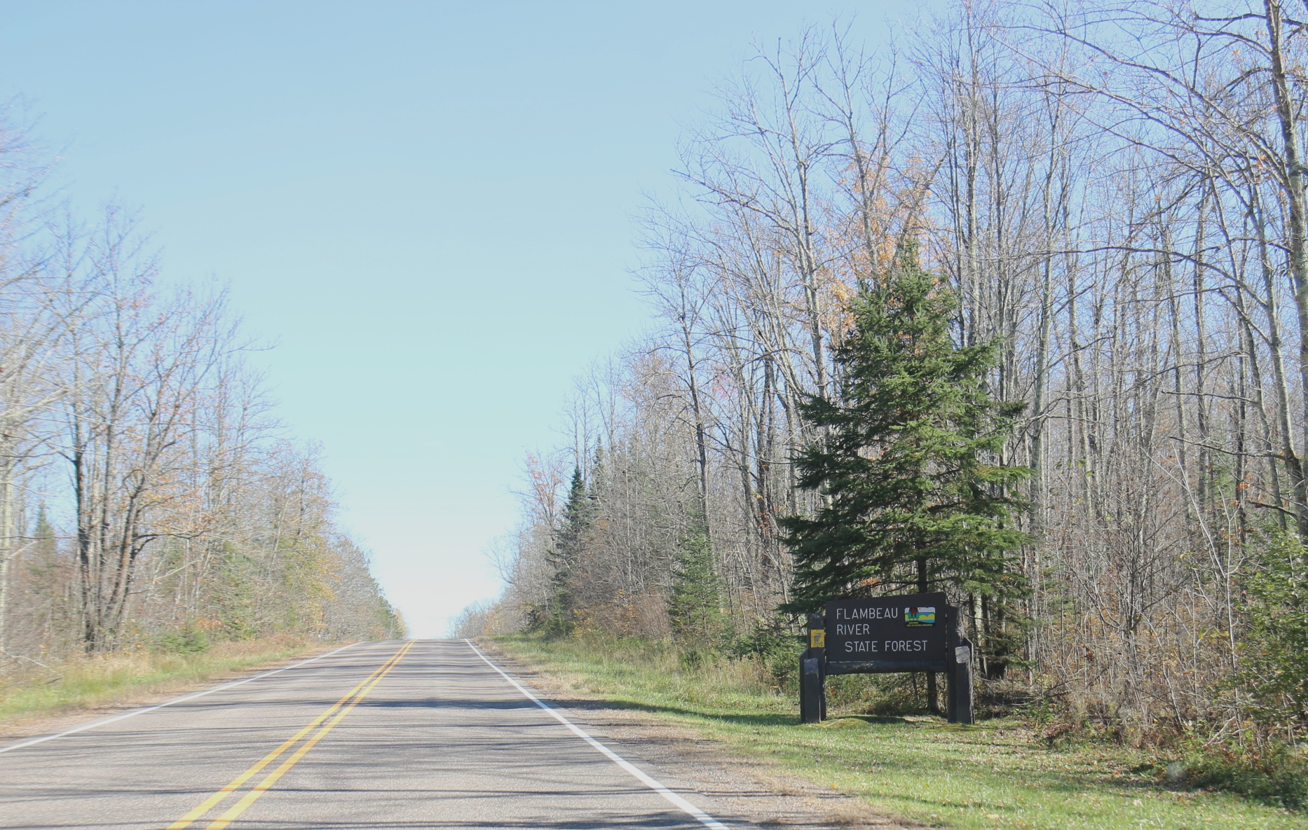 The sign for the Flambeau River State Forest on County W.